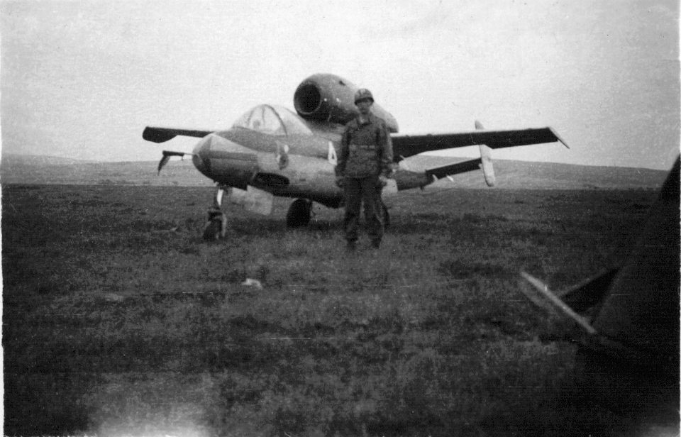 American soldier guarding a Heinkel He 162 Volksjäger. It is not clear where the picture was taken. The Heinkel He 162 was a German single engined, jet powered fighter aircraft fielded by the Luftwaffe in WWII. Designed and built quickly, and made primarily of wood it was nevertheless the fastest of the first generation of Axis and Allied jets. It was called Volksjäger,Salamander or Spatz ("Sparrow").This He 162 "White 4" of fighter unit JG1 was captured by British troops at Leck in Northern Germany. 3 He 162 were subsequently brought to Kassel. Originally, it was planned to take these jets to the US for evaluation.Picture in the possession of my grandfather Jan B.H.A. Vervloedt since the aftermath of the liberation of Belgium, photo now in the family archives.